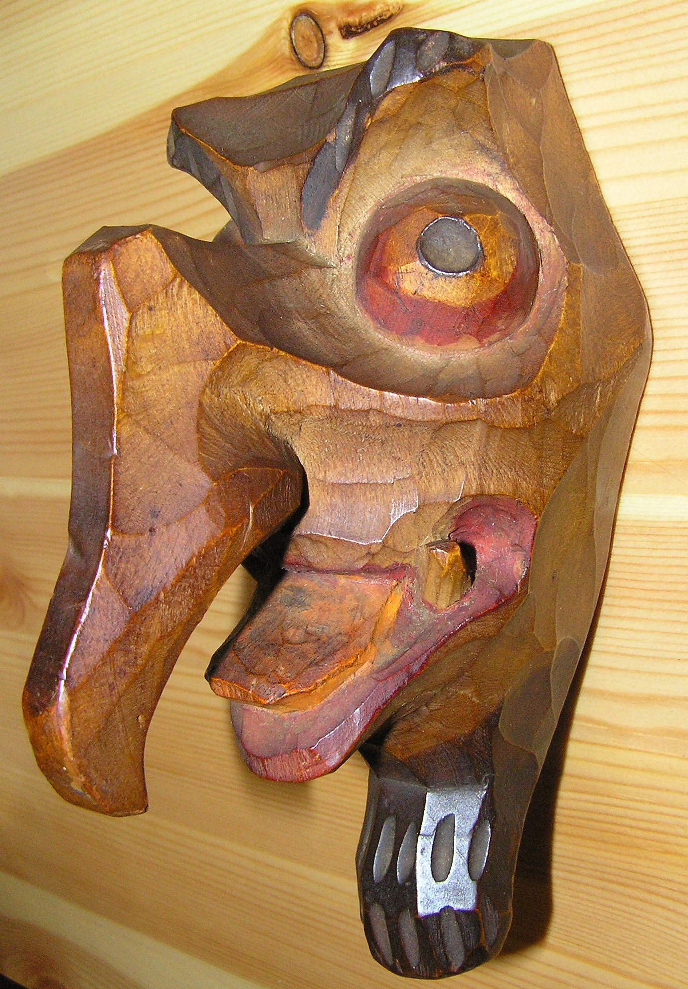 A devil from Lithuania